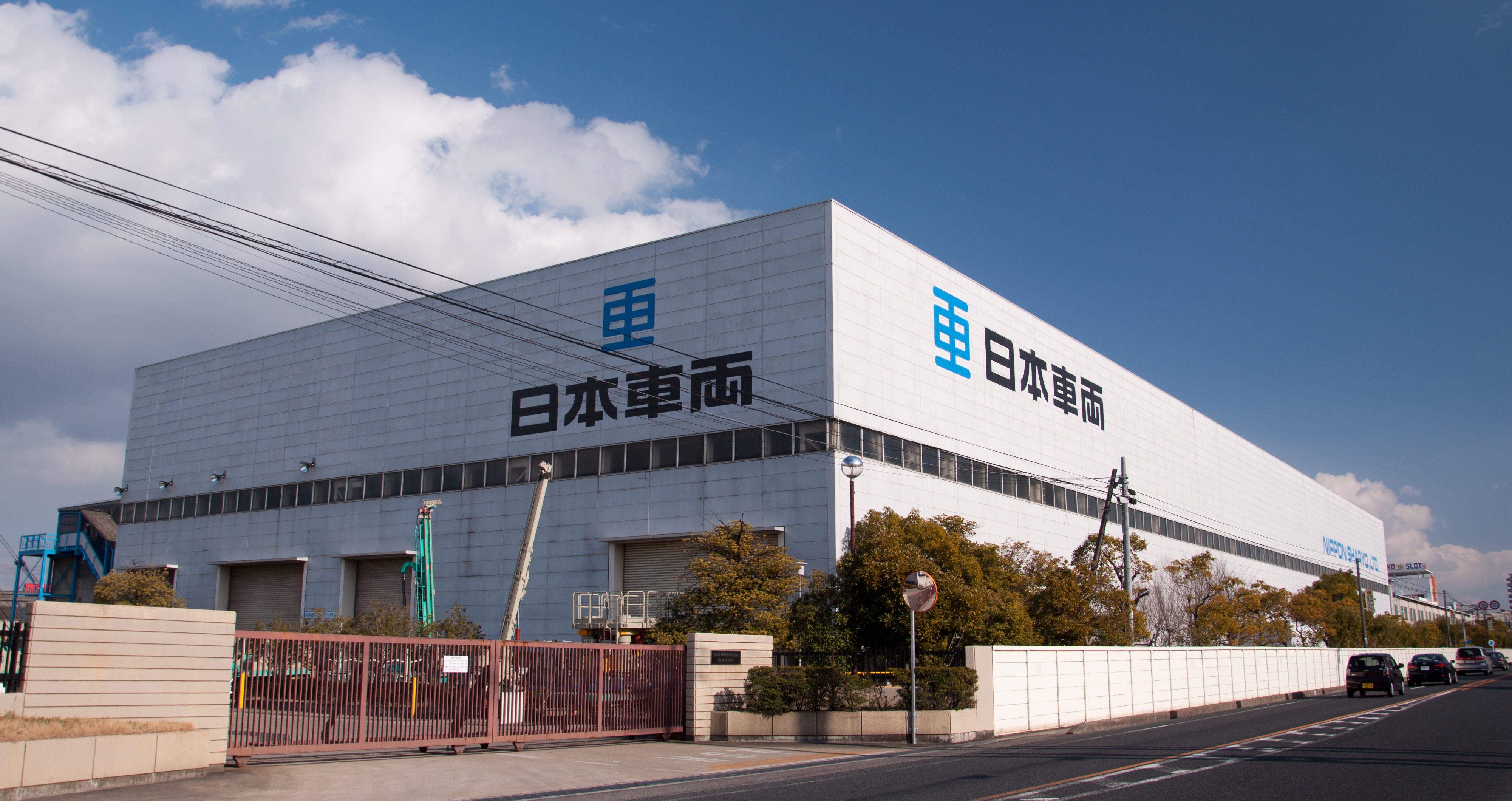 Nippon Sharyo (日本車輌製造) Narumi Factory